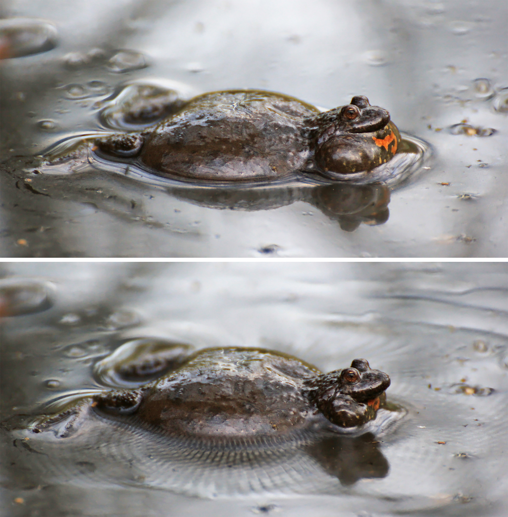 A male of the Fire-bellied Toad (Bombina bombina) calling on a pond surface. Above is the phase prior to the formation of sounds: the body is distended like a balloon, in addition, the throat bubbles are inflated with air. Below is the moment of phonation: The inhaled air is compressed by muscle contraction from the throat bubbles above the glottis of the larynx to the lungs. Here, the animal's body serving as a resonance amplifier makes vibrations which are displayed on the water.